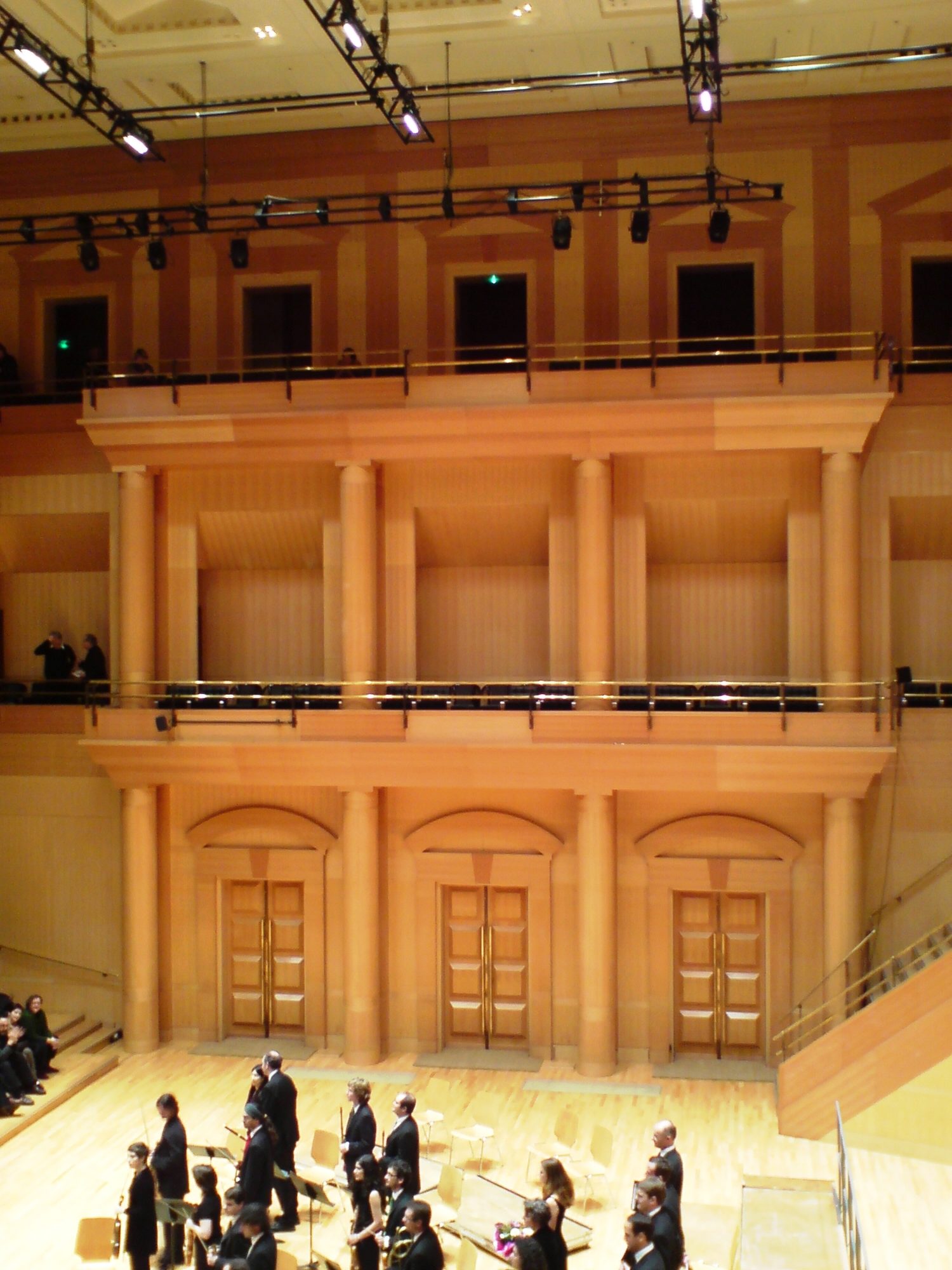 interior of Metz' Arsenal (music hall).